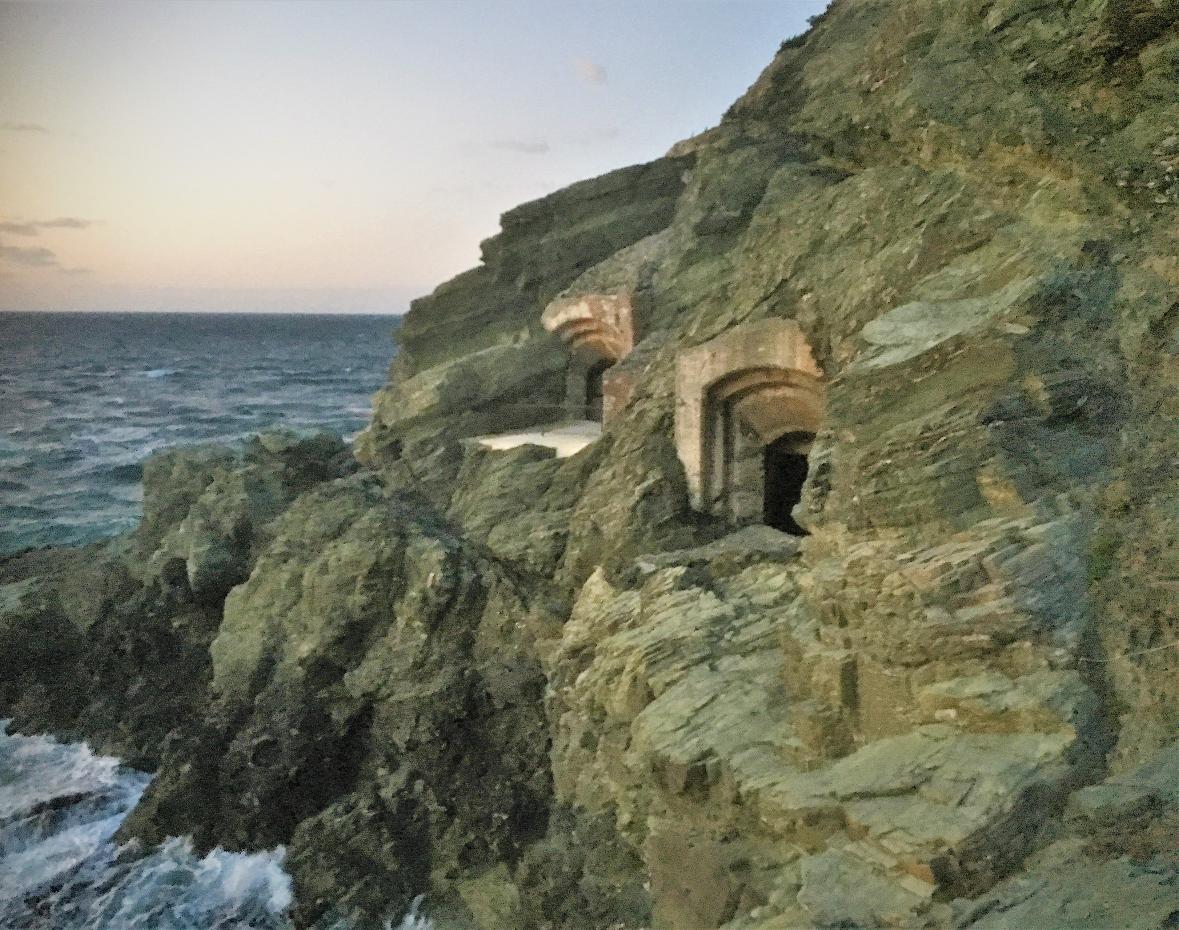 Sada-Cape battery, GEIYO fortress, Ehime-pref, JAPAN